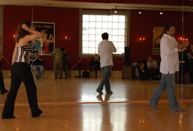 Tango dancer and teacher Norberto Esbres (El Pulpo) and his partner Luiza Paes during the workshop at "Shall we dance" studio in Pacific Grove, California on May 27, 2007.